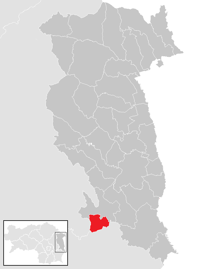 district Hartberg-Fürstenfeld